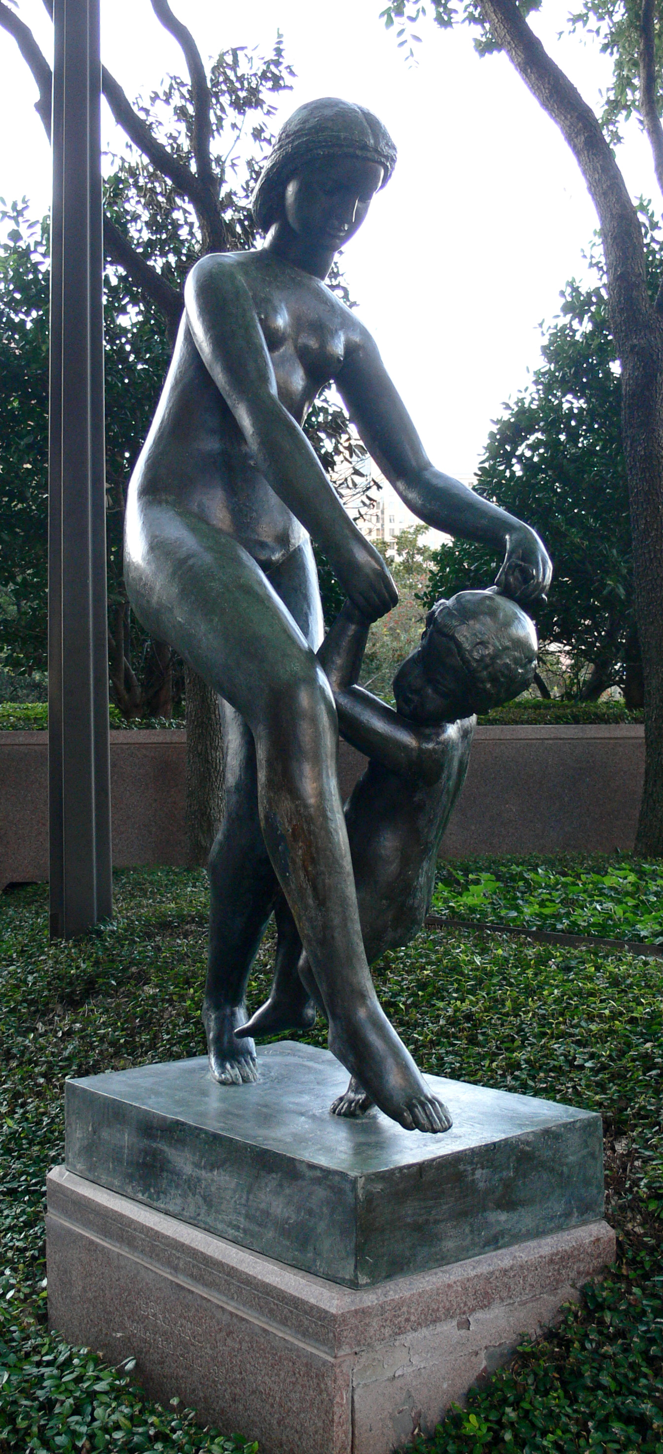 Dallas, Texas: Trammell Crow Center Sculpture Garden Joseph Bernard: Mother and Child